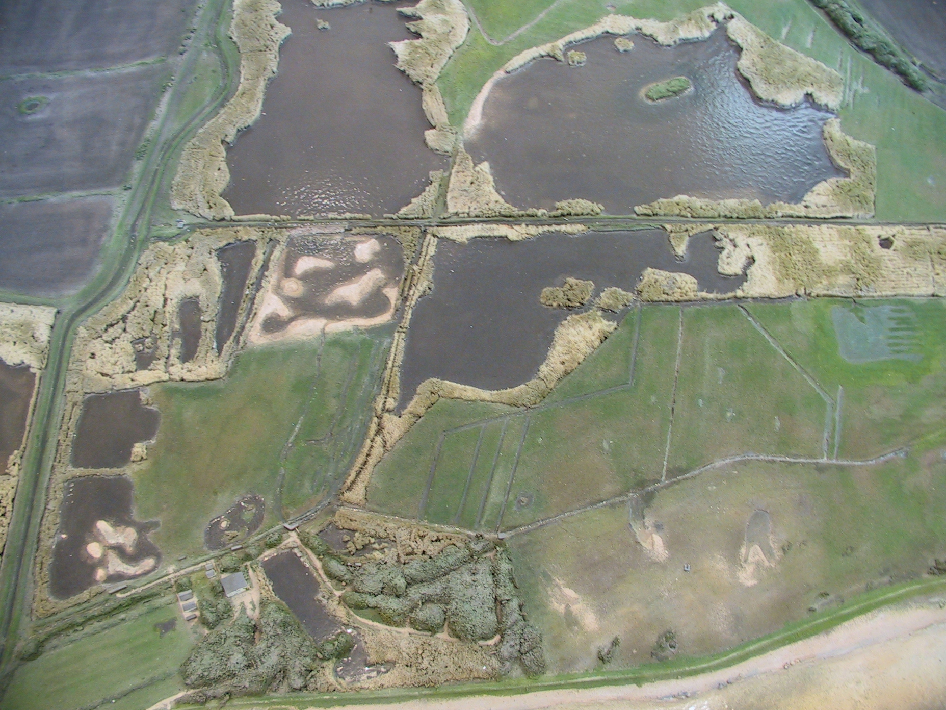 Wallnau, model of the area